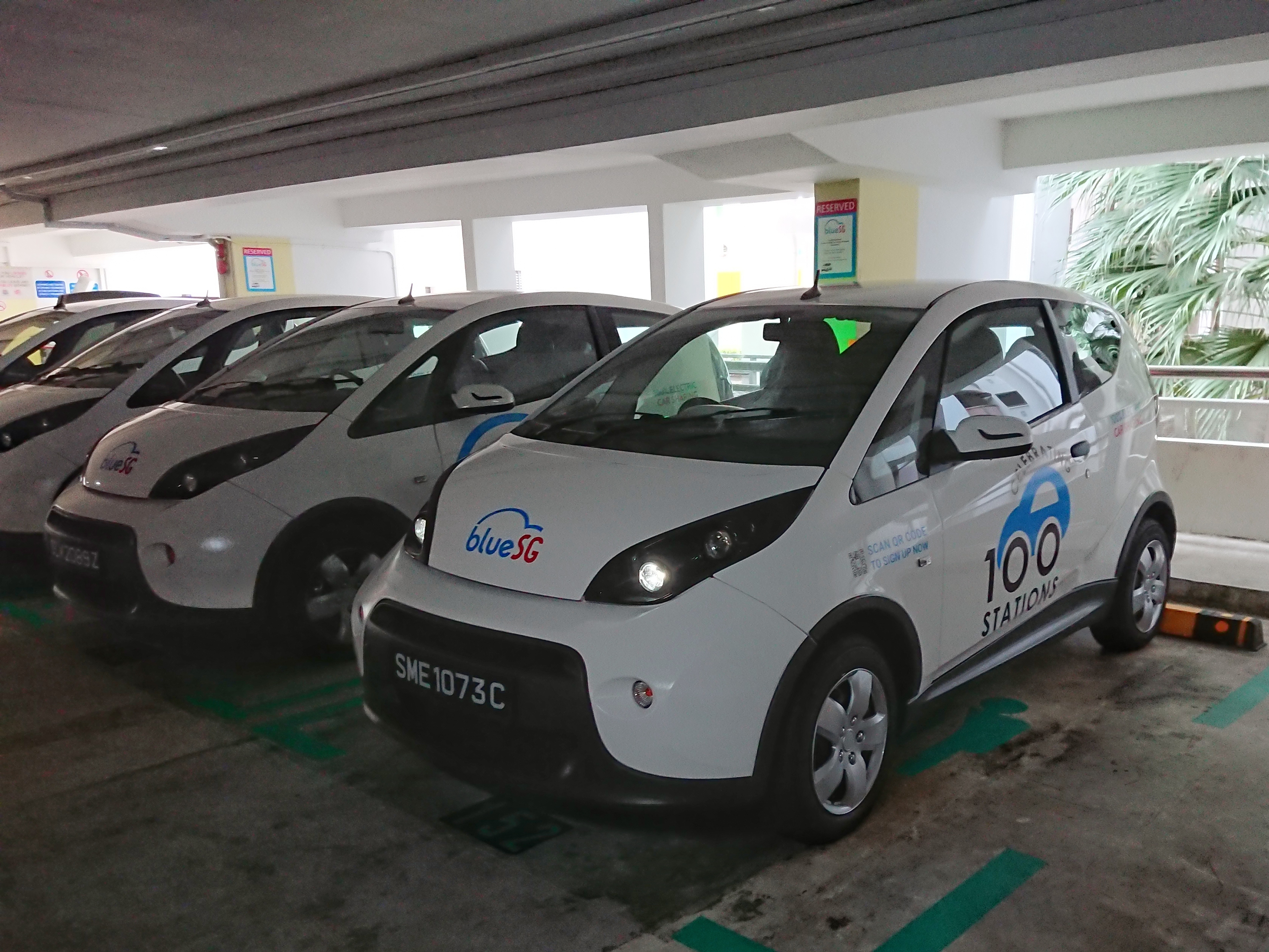 Bollore Bluecar under Bluesg, with the celebratory 100 stations livery, taken with Xperia XZ Premium